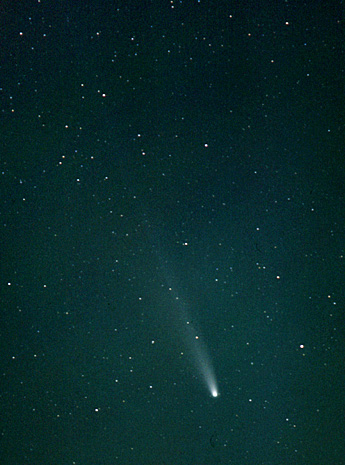 Photo of the comet Ikeya-Zhang. The photo was taken using the following equipement: 0 Film: Fuji Provia 400 Exposure: 10min. at f/4 Scan: Umax Astra 1220S with transparency adaptor Processing: Removing of vignetting and gradient (light pollution); the bad quality of the scanner shows up in the irregular density and color variation across the frame.